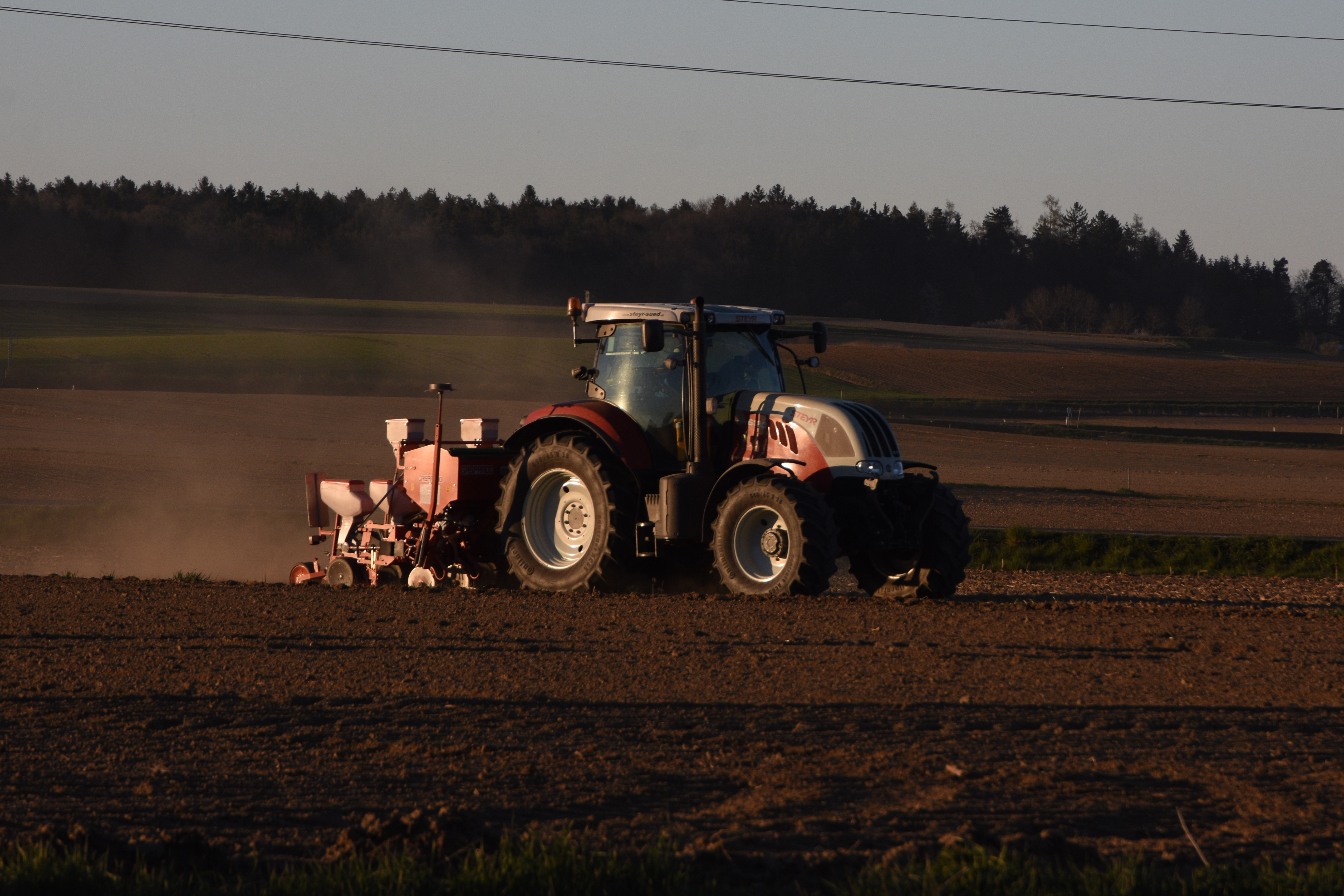 Maize fields in Styria